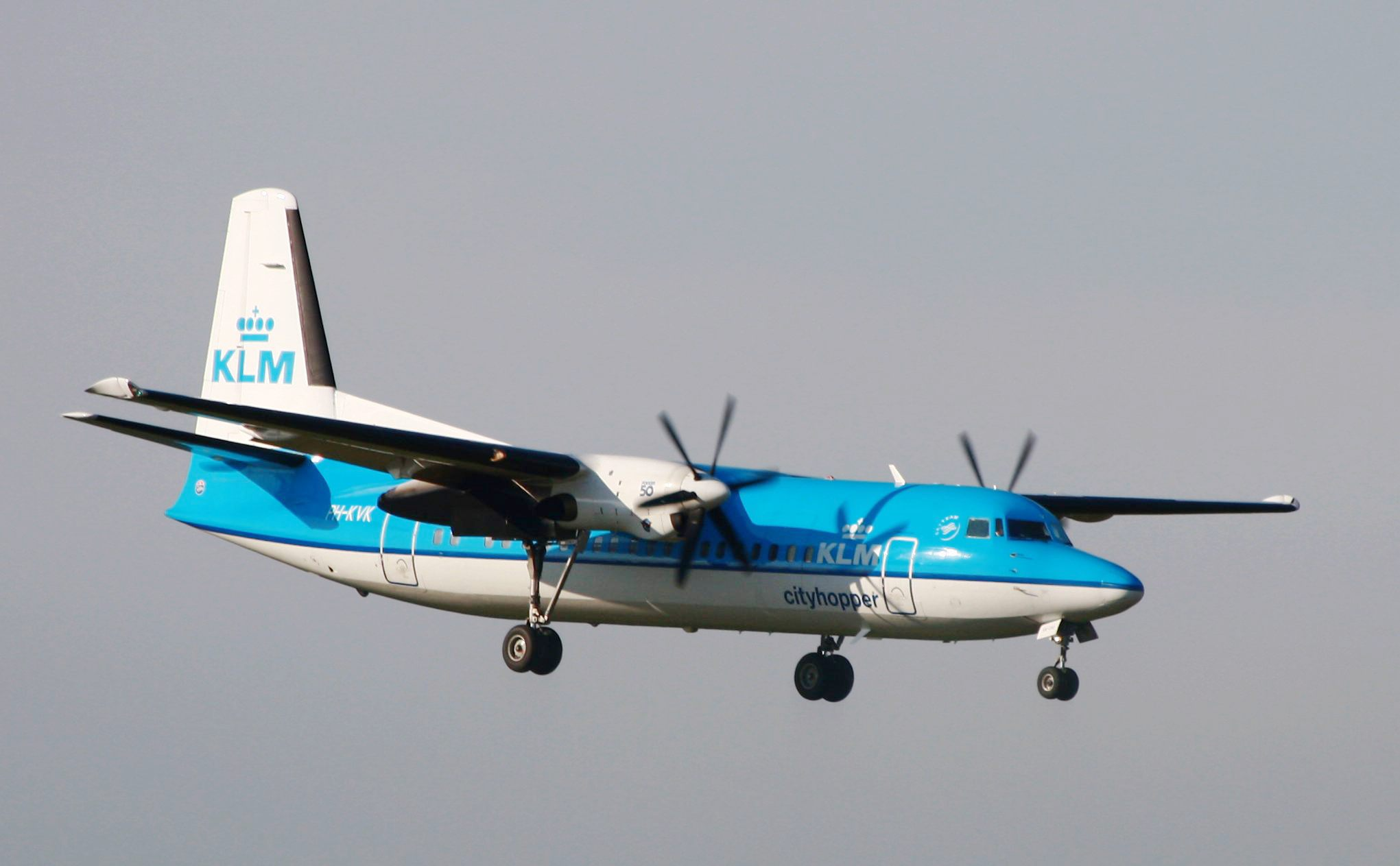 Fokker 50 (PH-KVK) of KLM cityhopper on final to Cologne Bonn Airport